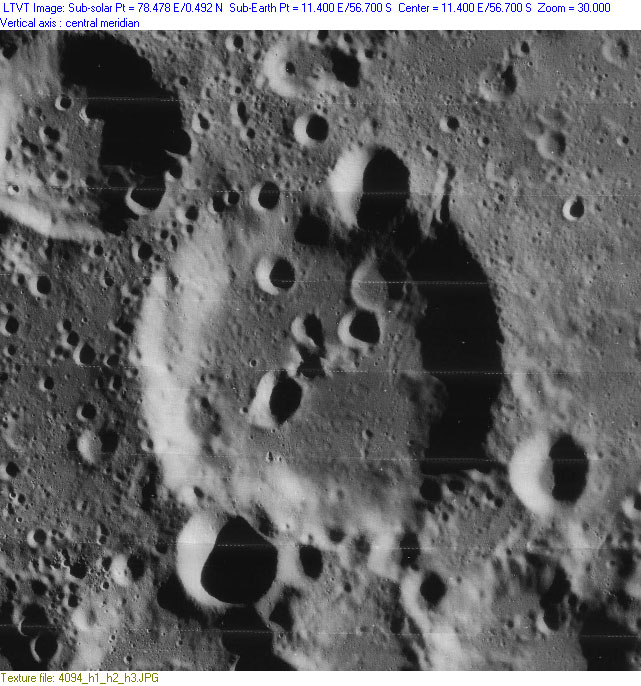 Crater Jacobi. Detail from Lunar Orbiter IV-094H. High resolution scans from the USGS Lunar Orbiter Digitization Project remapped to a north-up aerial view by LTVT.